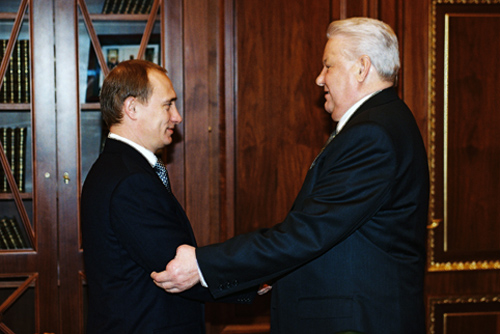 THE KREMLIN, MOSCOW. President Boris Yeltsin meeting Prime Minister Vladimir Putin.